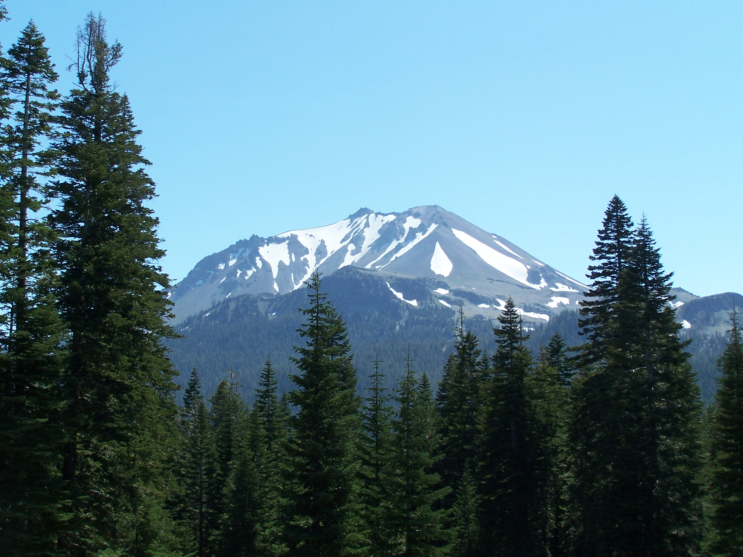 Photo by: M. Burton